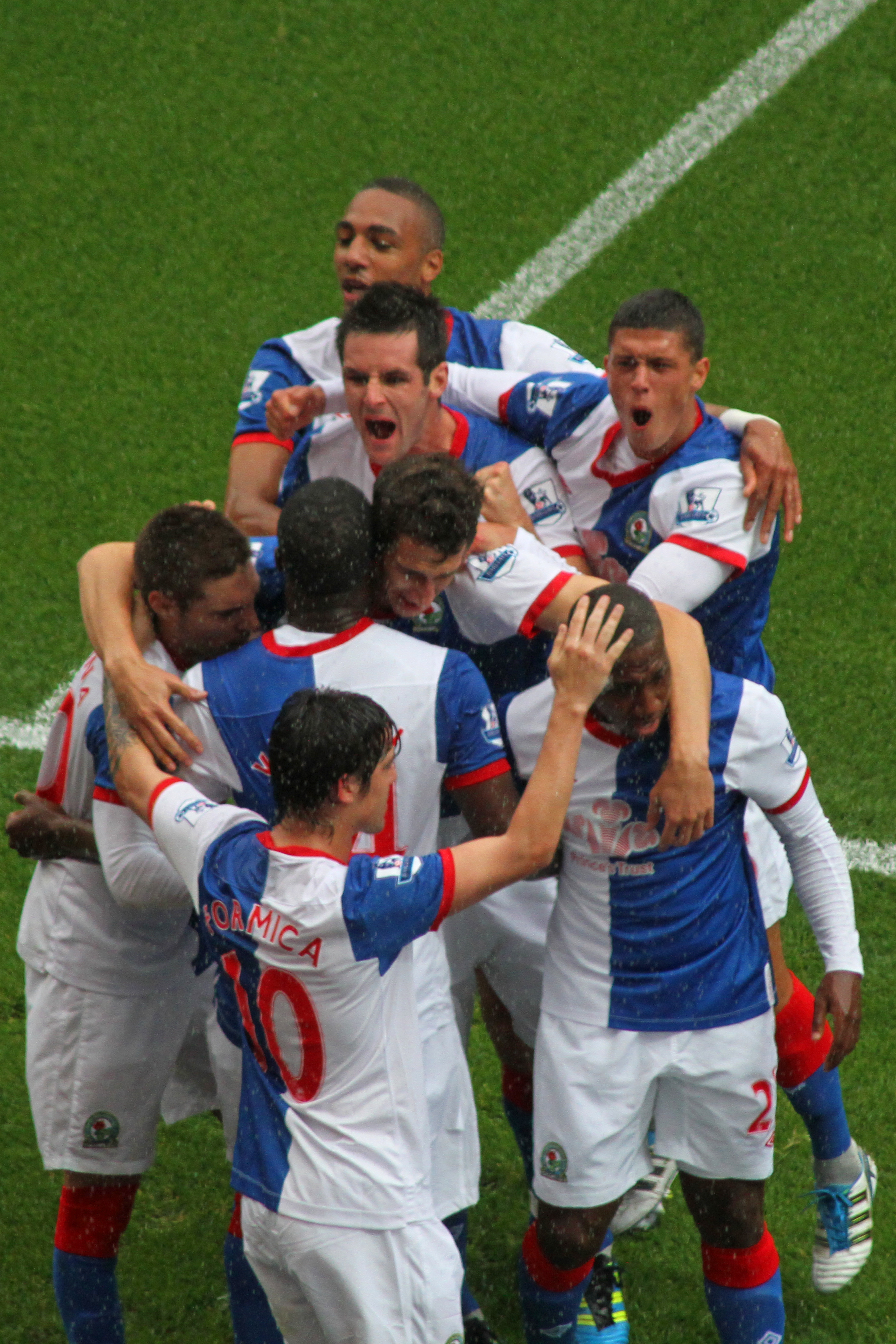 Goal Celebrations 2